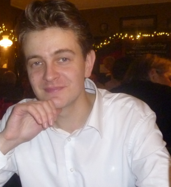 French Pianist living in Munich, Germany